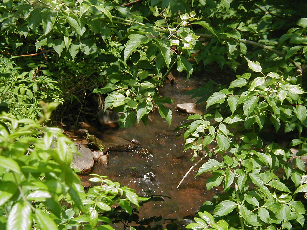 Middlebush Brook crossing Black Wells Mills Road